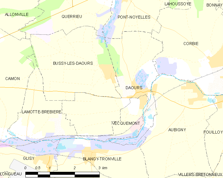 Map of French municipality Daours